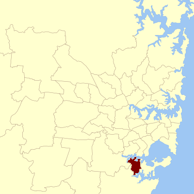 Location of the New South Wales Legislative Assembly electoral district within Sydney in New South Wales. Reference: [1]